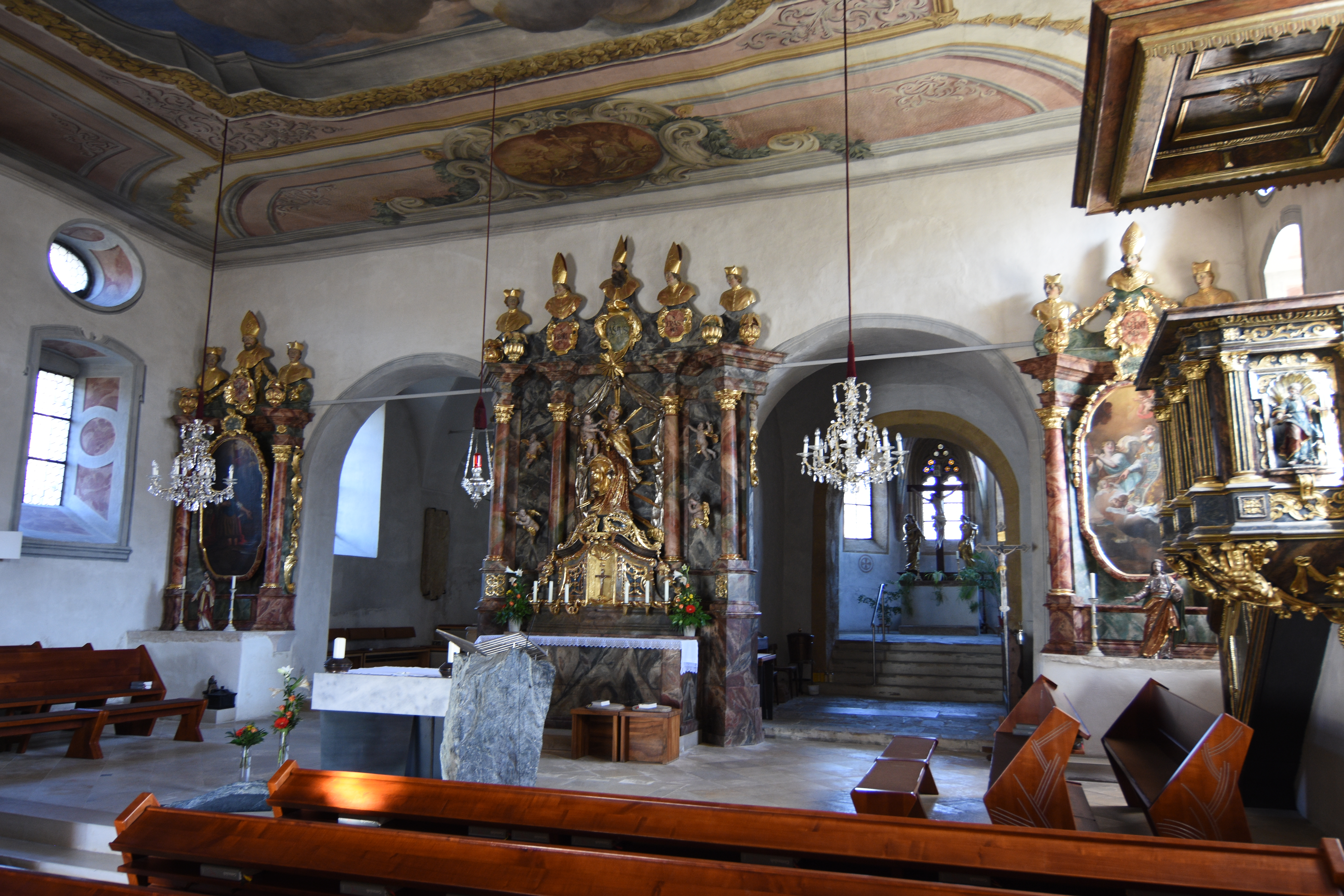 Church hl. Ägydius (Vorau) - Interior